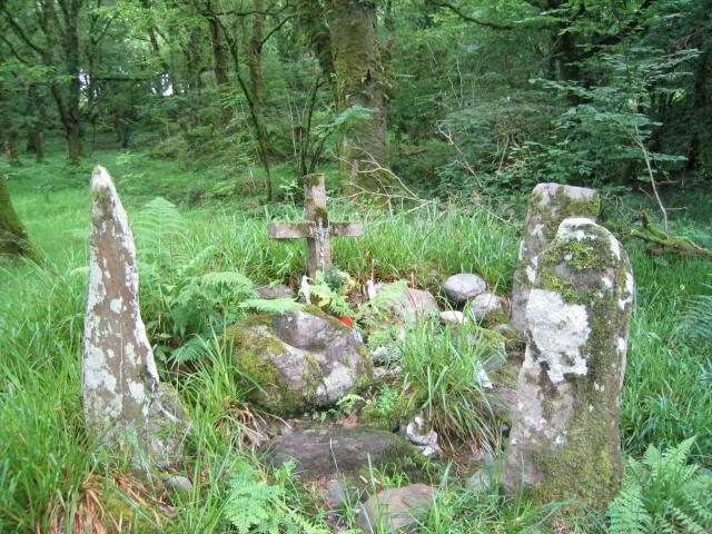 Ogham stones near Baile Mhic Íre (Ballymakeery) Three ogham stones with the somewhat later addition of a Christian shrine to St Abán.